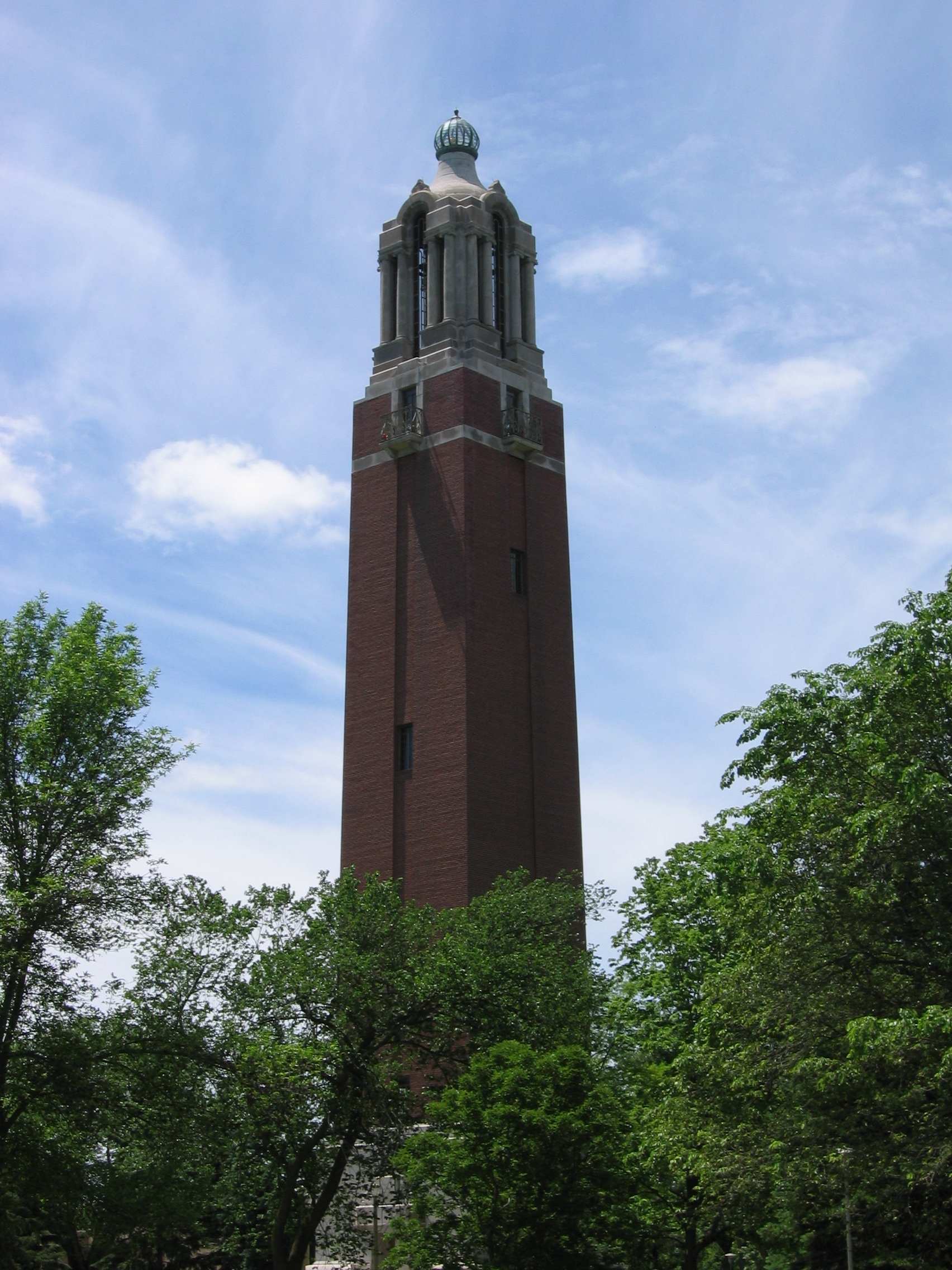 Image of the Coughlin Campanile taken by Andrew Boerema - 2005